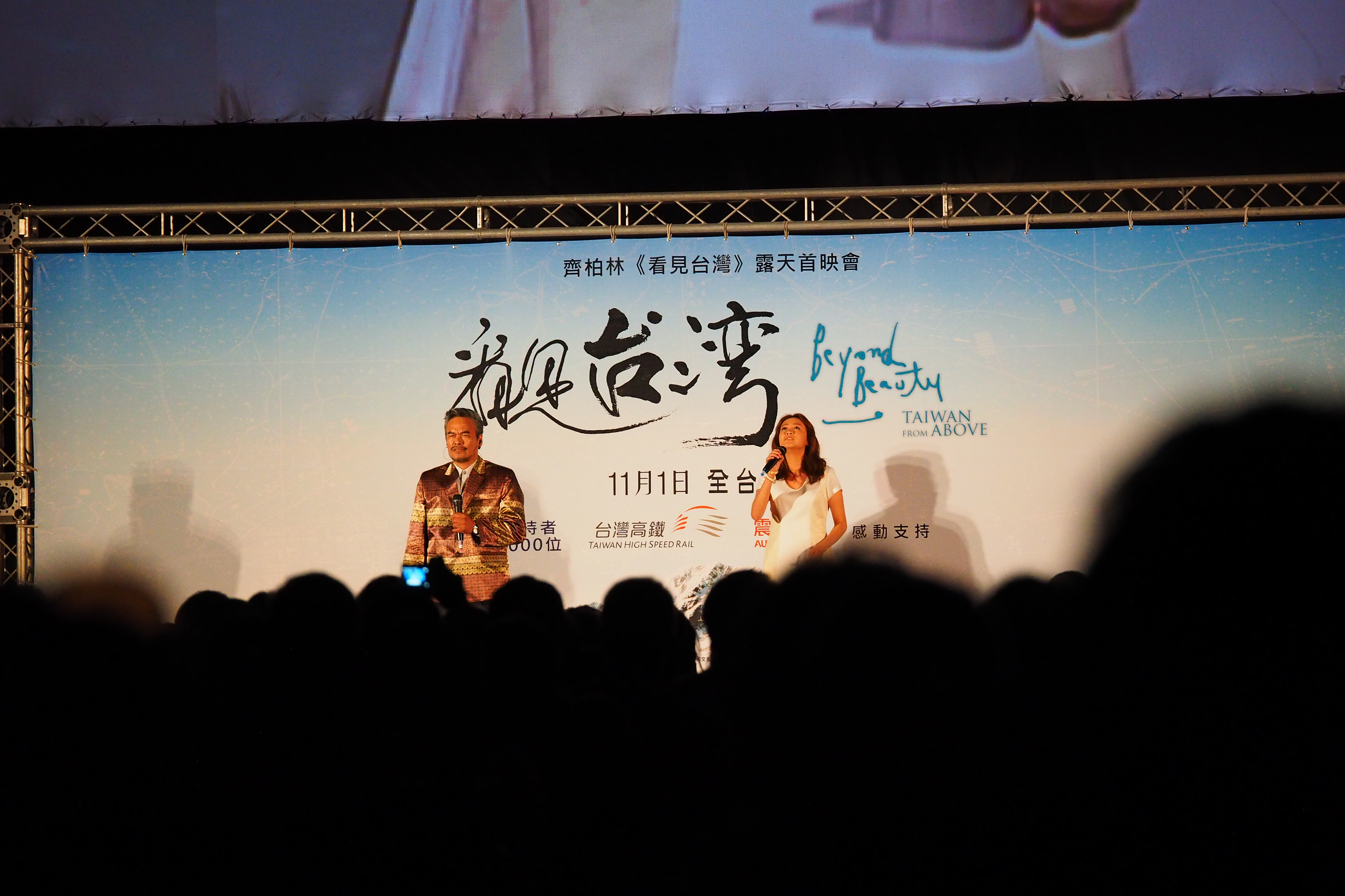 2013/10/30 - 齊柏林執導紀錄片「看見台灣」在臺北自由廣場前